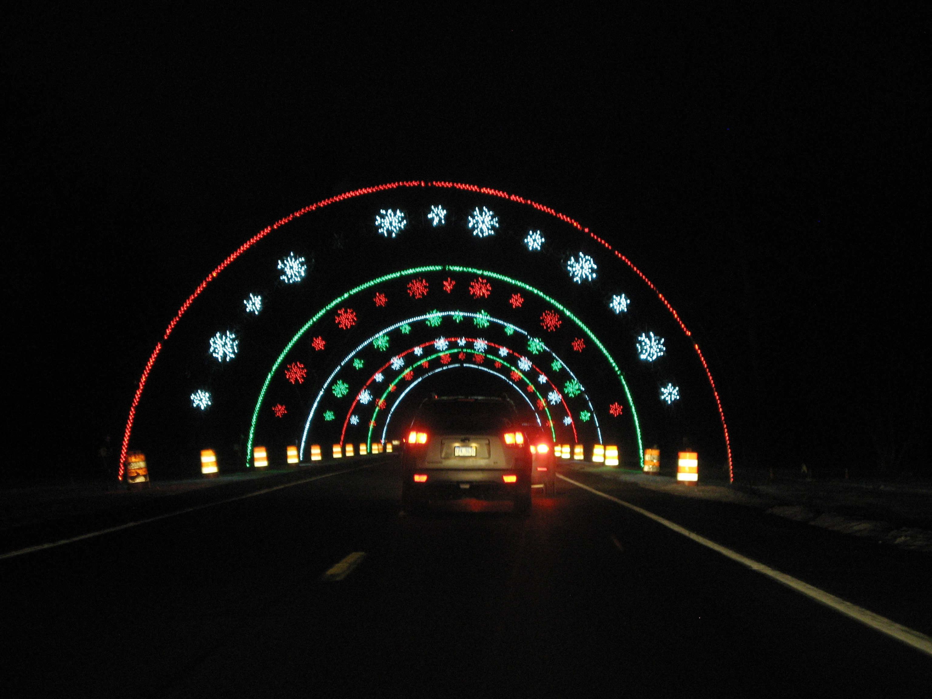 Wayne county Michigan lighfest 2013